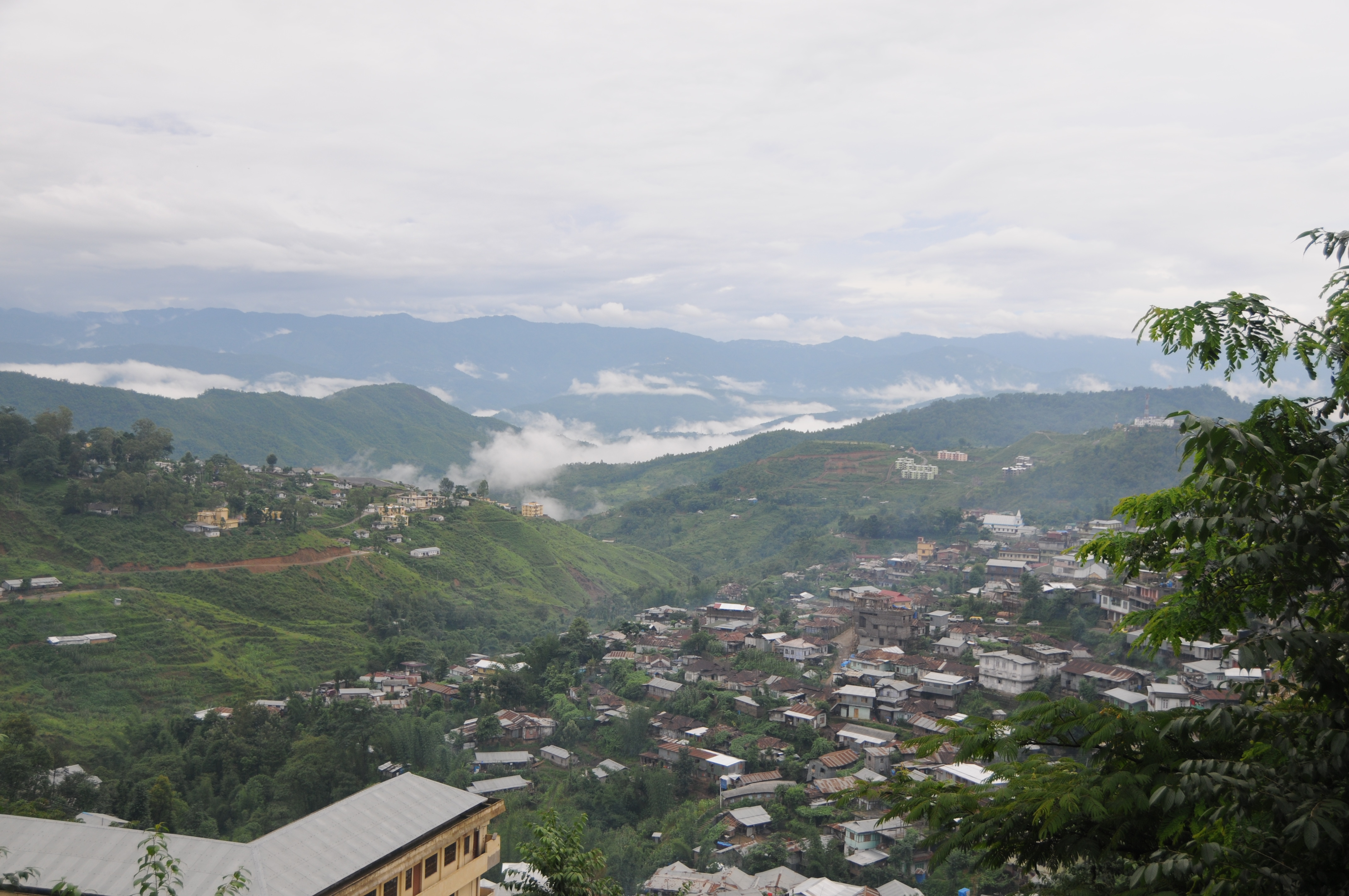 A view from Kohima, showing the natural geography of Nagaland